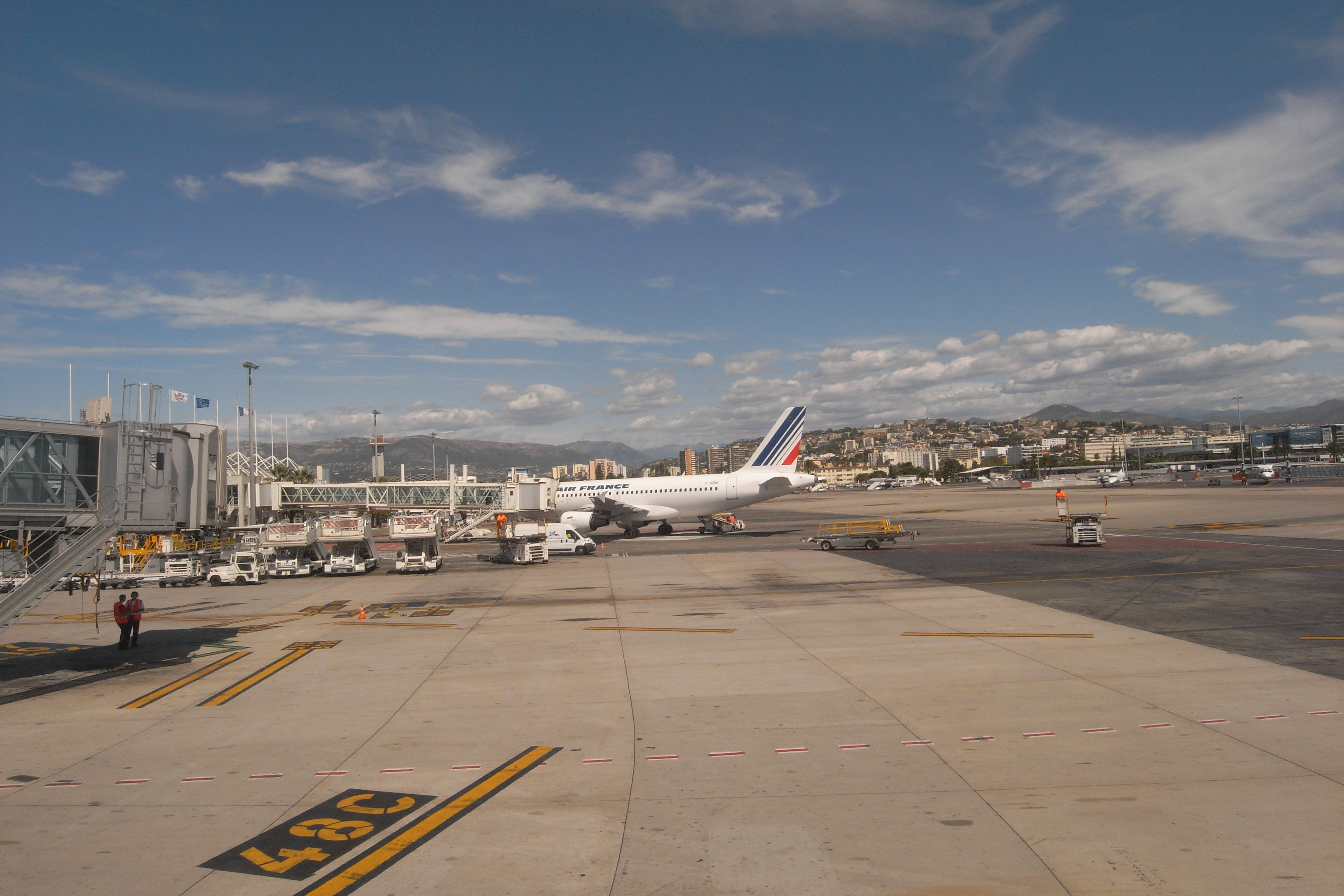 The airport ramp in the terminal 2 of Nice Côte d'Azur Airport, France.